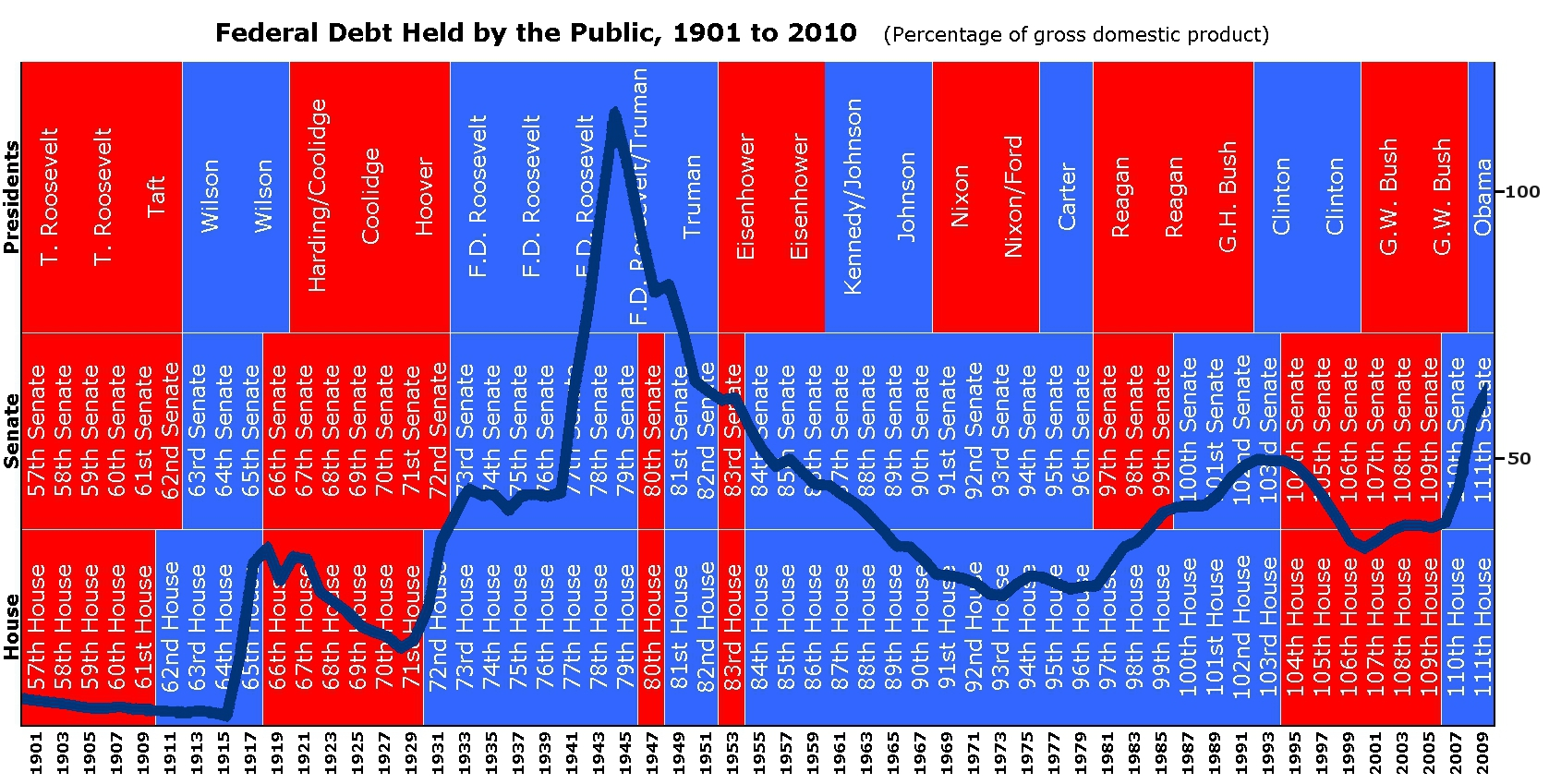 Federal Debt Held by the Public by U.S. Presidents and party control of Senate and House, 1901 to 2010; source for debt data is Congressional Budget Office, "Federal Debt and the Risk of a Fiscal Crisis", July 27 2010